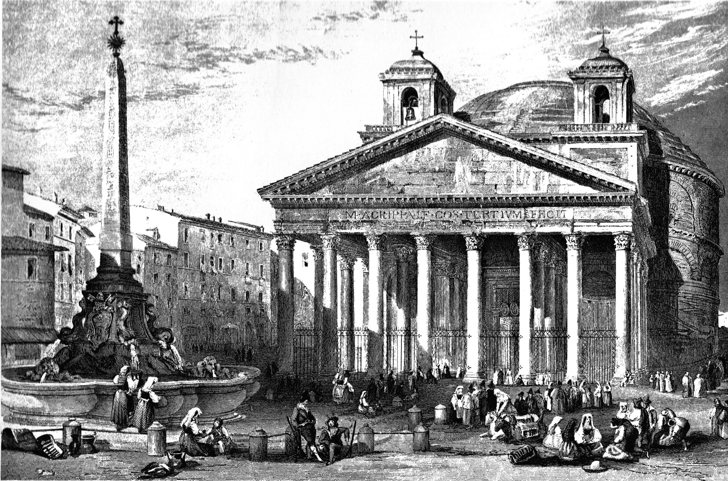 The Pantheon in Rome around 1835. Drawing by W.L. Leitch, engraving by W.B. Cooke.